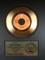 Epic Records, Tom Jones - Say You'll Stay Until Tomorrow